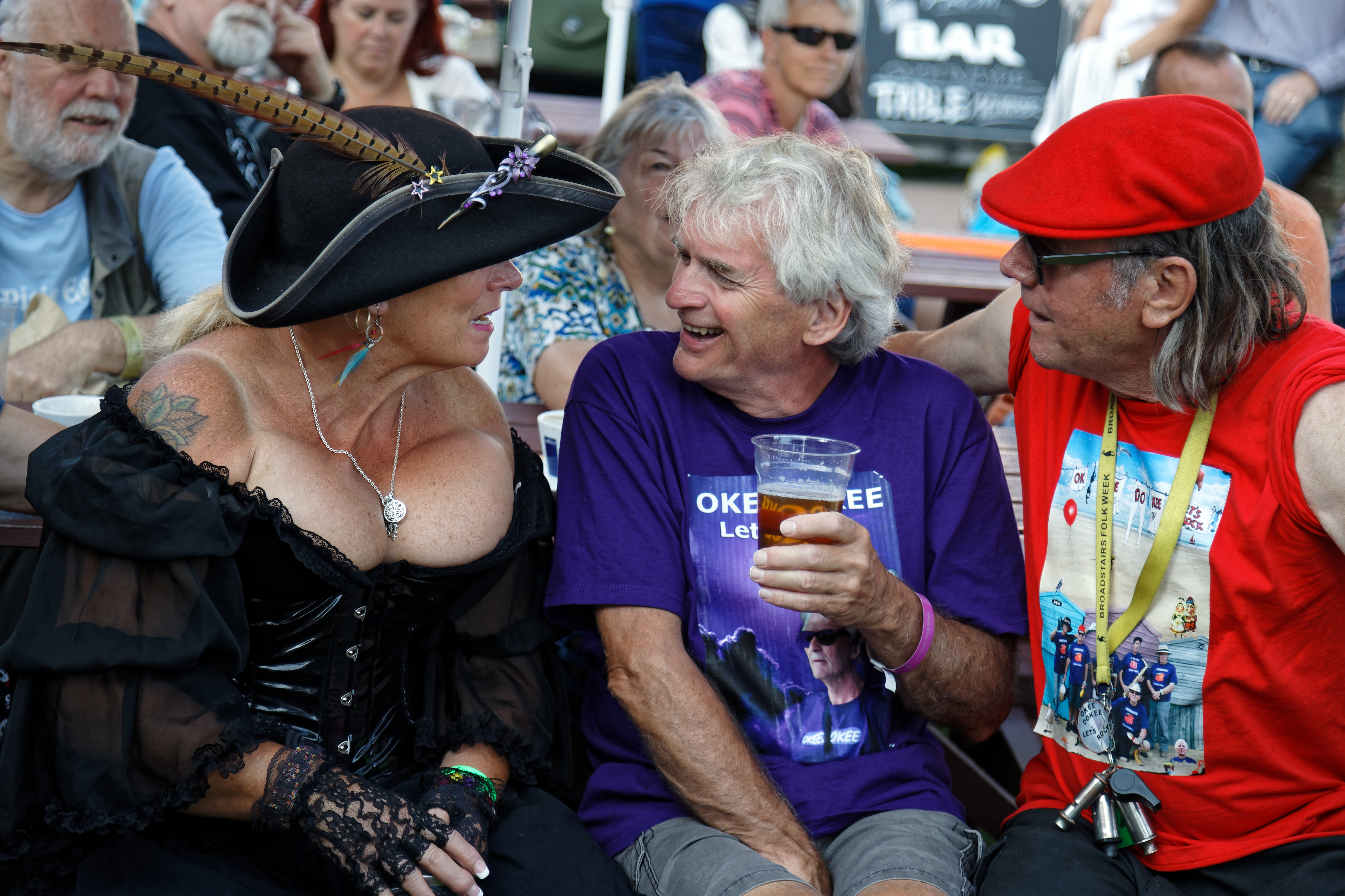 Three people in conversation in the Pavilion Gardens during a performance at the Broadstairs Folk Week 2017, in Kent, England.Camera: Canon EOS 6D Mark II with Canon EF 24-105mm F4L IS USM lens.Software: File lens-corrected, optimized, perhaps cropped, with DxO OpticsPro 11 Elite, and likely further optimized with Adobe Photoshop CS2.